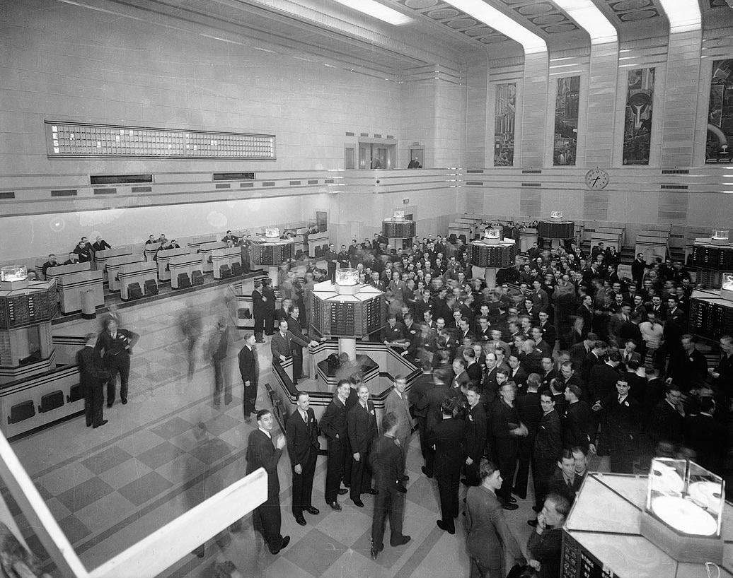 The trading floor, in the Toronto Stock Exchange's new building which opened in 1937. Toronto, Canada.